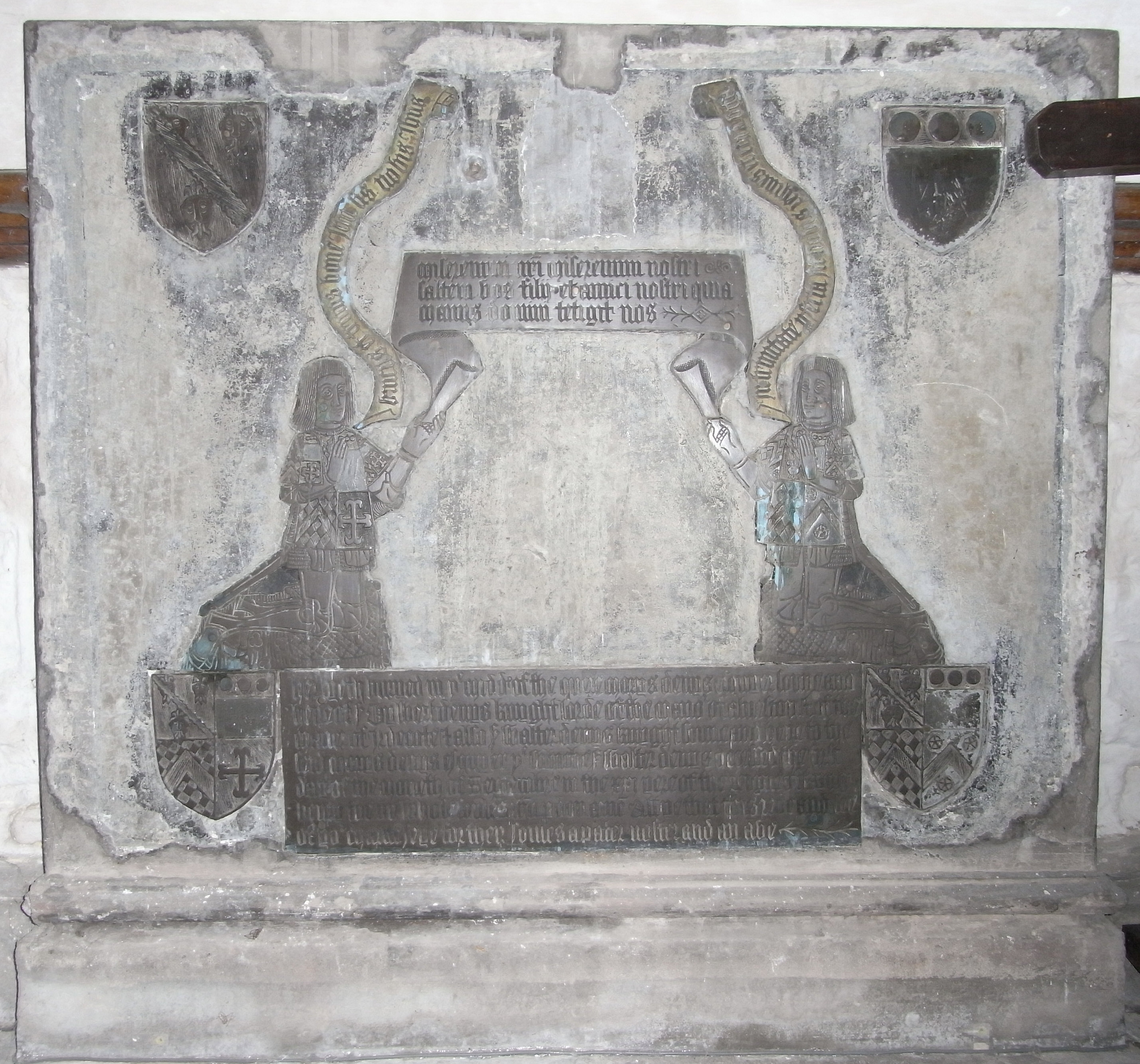 The 1505 Denys funerary brass on the east wall of the south transept of the parish church of Saint Mary the Virgin, Olveston, Gloucestershire, England. The figure on the left is Maurice Denys (c. 1410–1466), twice High Sheriff of Gloucestershire in 1460 and 1461, who is interred in the church; and the figure on the right is his son Sir Walter Denys (c. 1437–1505).